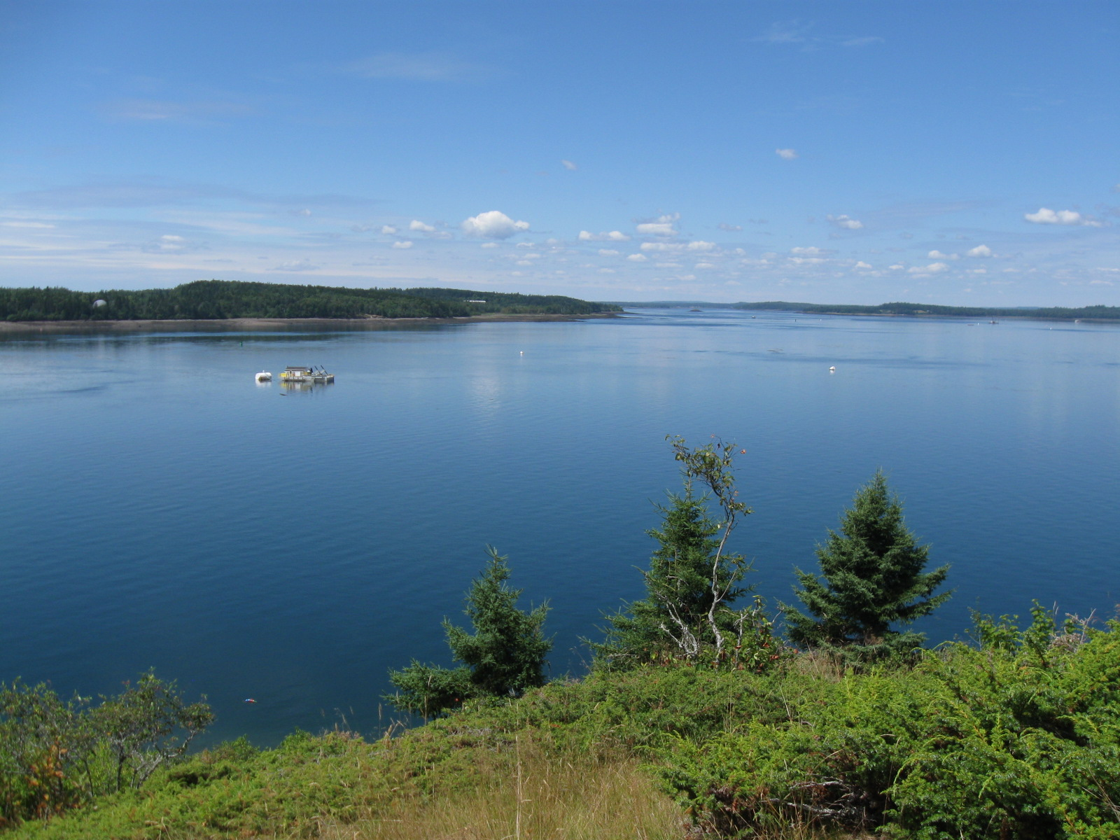 View of Cobscook Bay from Shackford Head in city of Eastport.